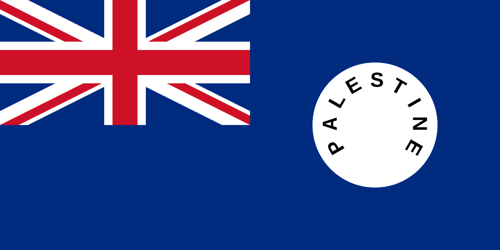 Palestine Mandate Customs and Postal Services Ensign 1929-1948